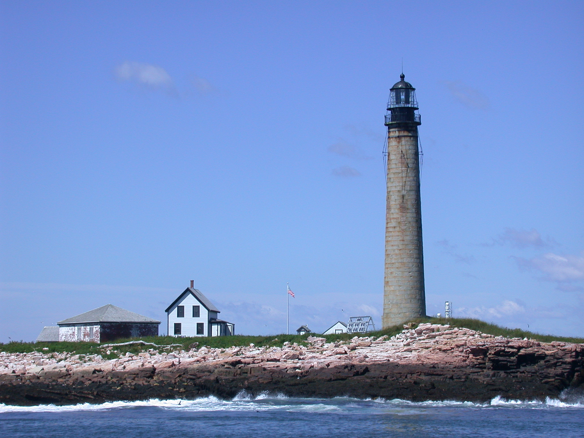 Petit Manan Light Maine, USA. photo by